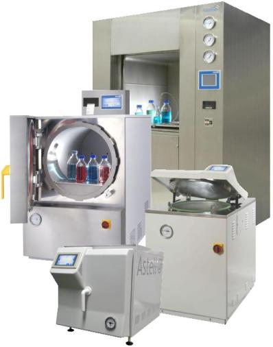 Group of Autoclaves Uploaded per request at Wikipedia:Images_for_upload